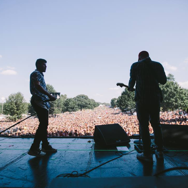 David and Carter on stage